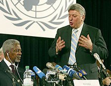 coffee annan in mgimo, openning mimun